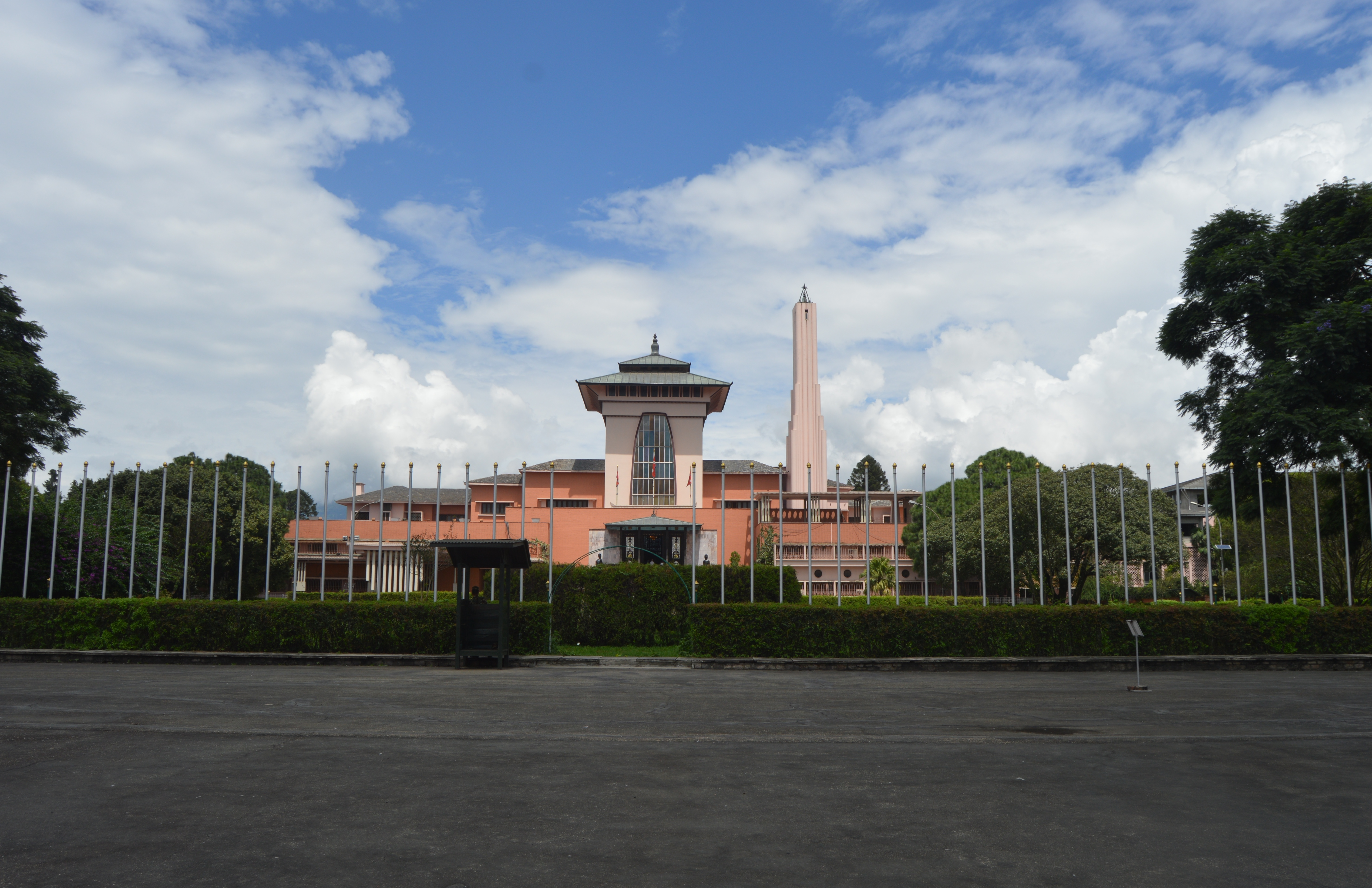 Narayanhiti Palace Museum which long served as residence and principal workplace of the reigning Monarch of Kingdom of Nepal. It was built by king Mahendra in 1961 following the design by Californian architect Benjamin Polk. After the 2006 revolution, this royal palace was turned into a public museum.